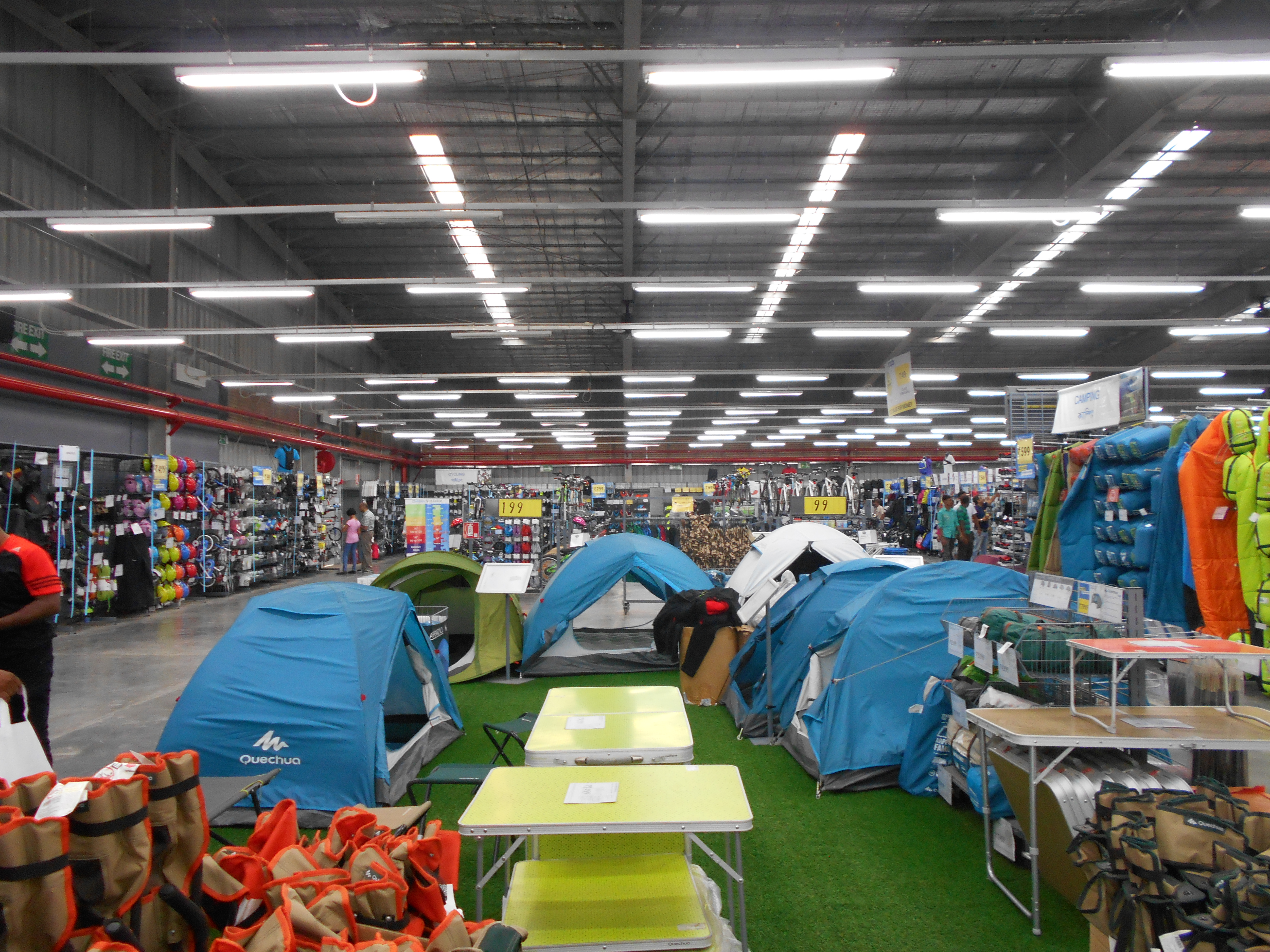 Decathlon is one of the world's largest sporting goods retailers. This shop is located in Howrah, West Bengal, India.